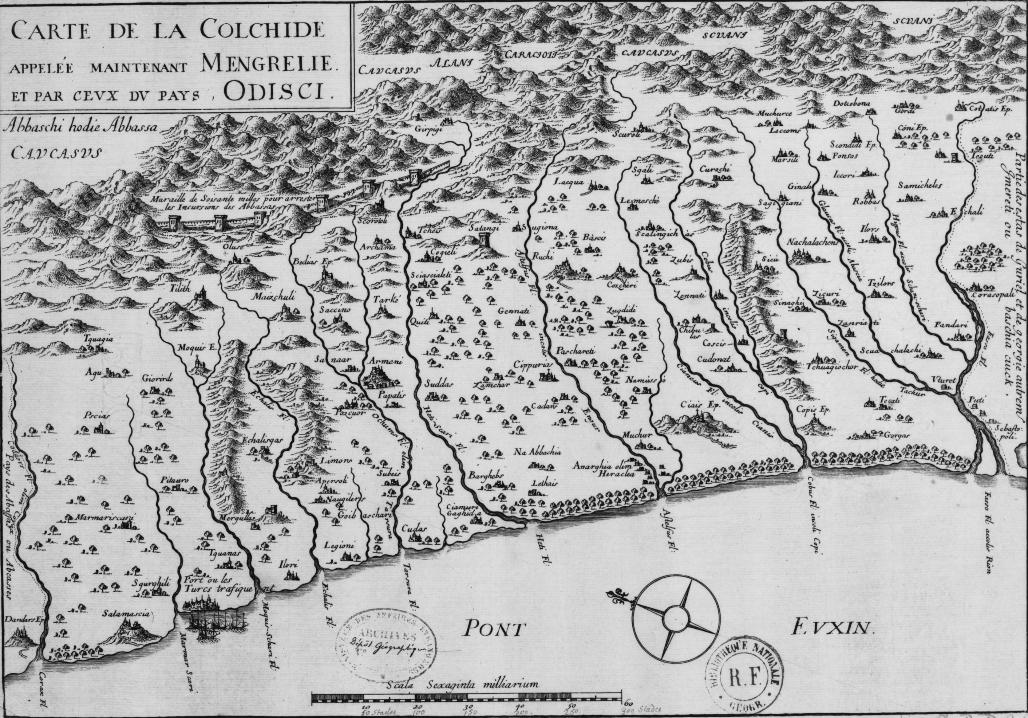 An early map showing the extent of the fortifications of the Ottoman Empire along the east of the Black Sea and in the foothills of the Caucasus. Vignettes of buildings, mountains and ships in harbour. Published in Paris.